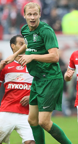 Maksim Bardachow with FC Tom Tomsk